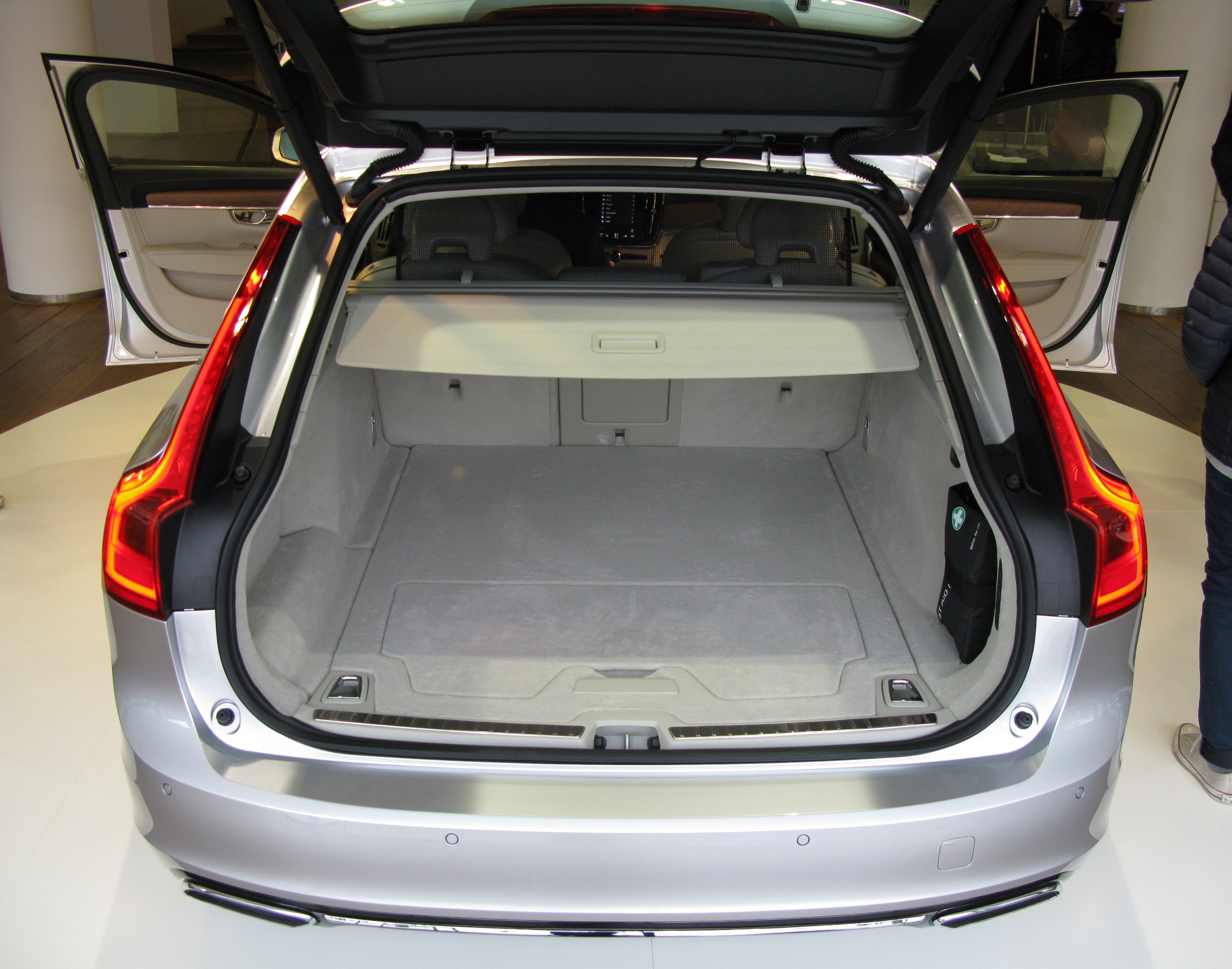 2016 Volvo V90 T6 Inscription